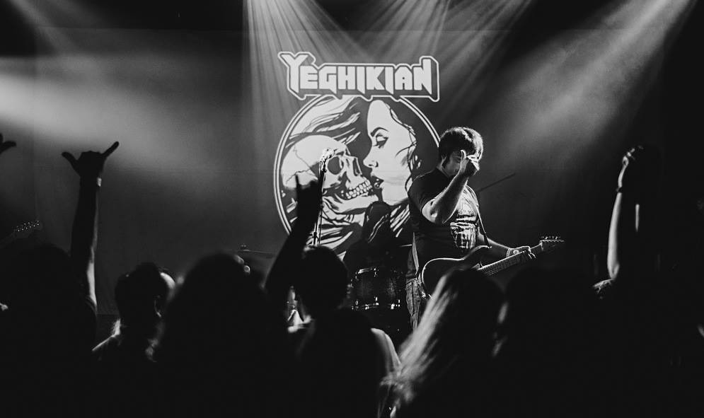 Alexy stands over the crowd giving a thumbs up at The Tourbadour, West Hollywood, CA.